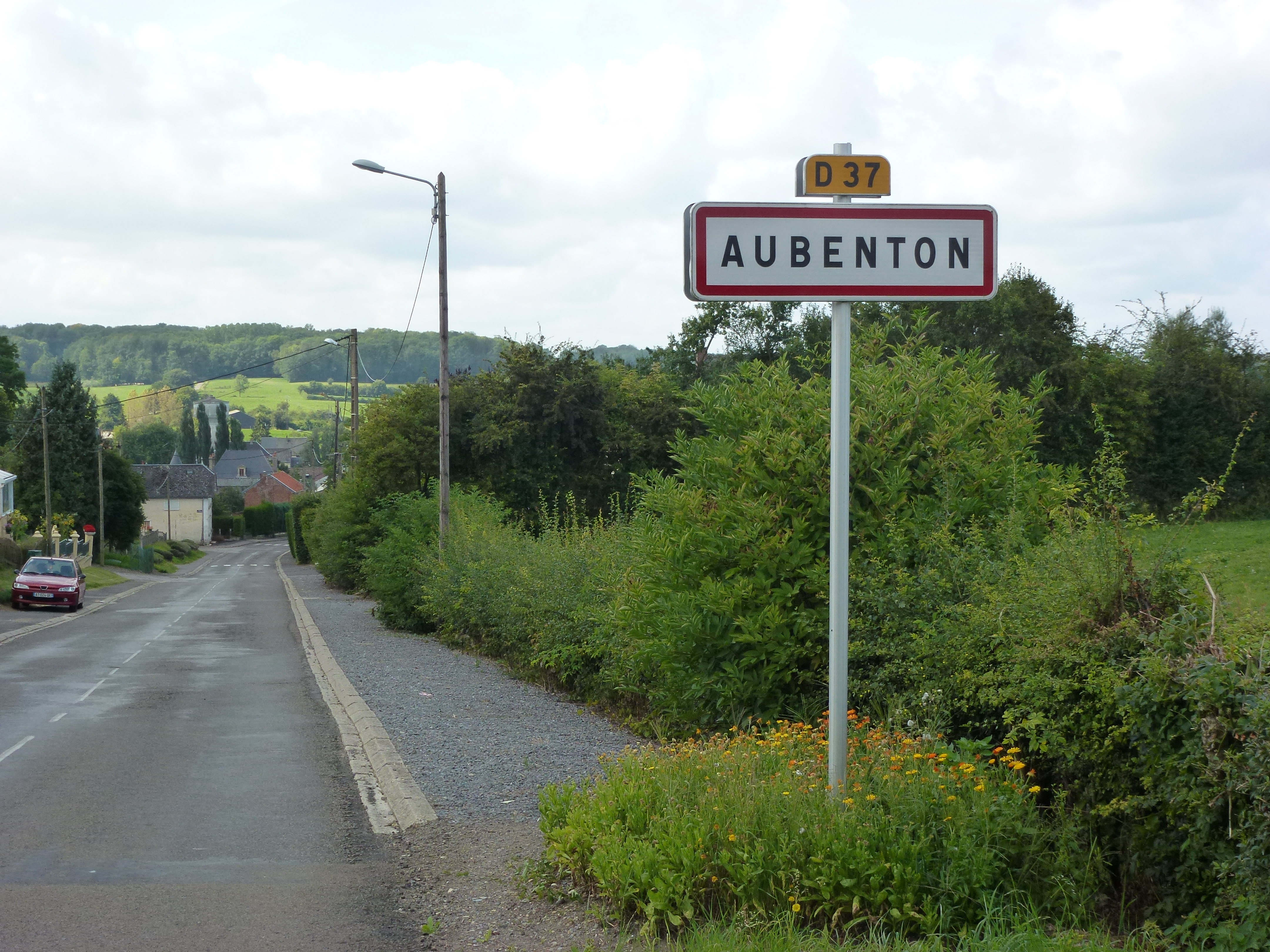 Aubenton (Aisne) city limit sign